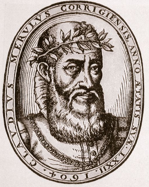 from